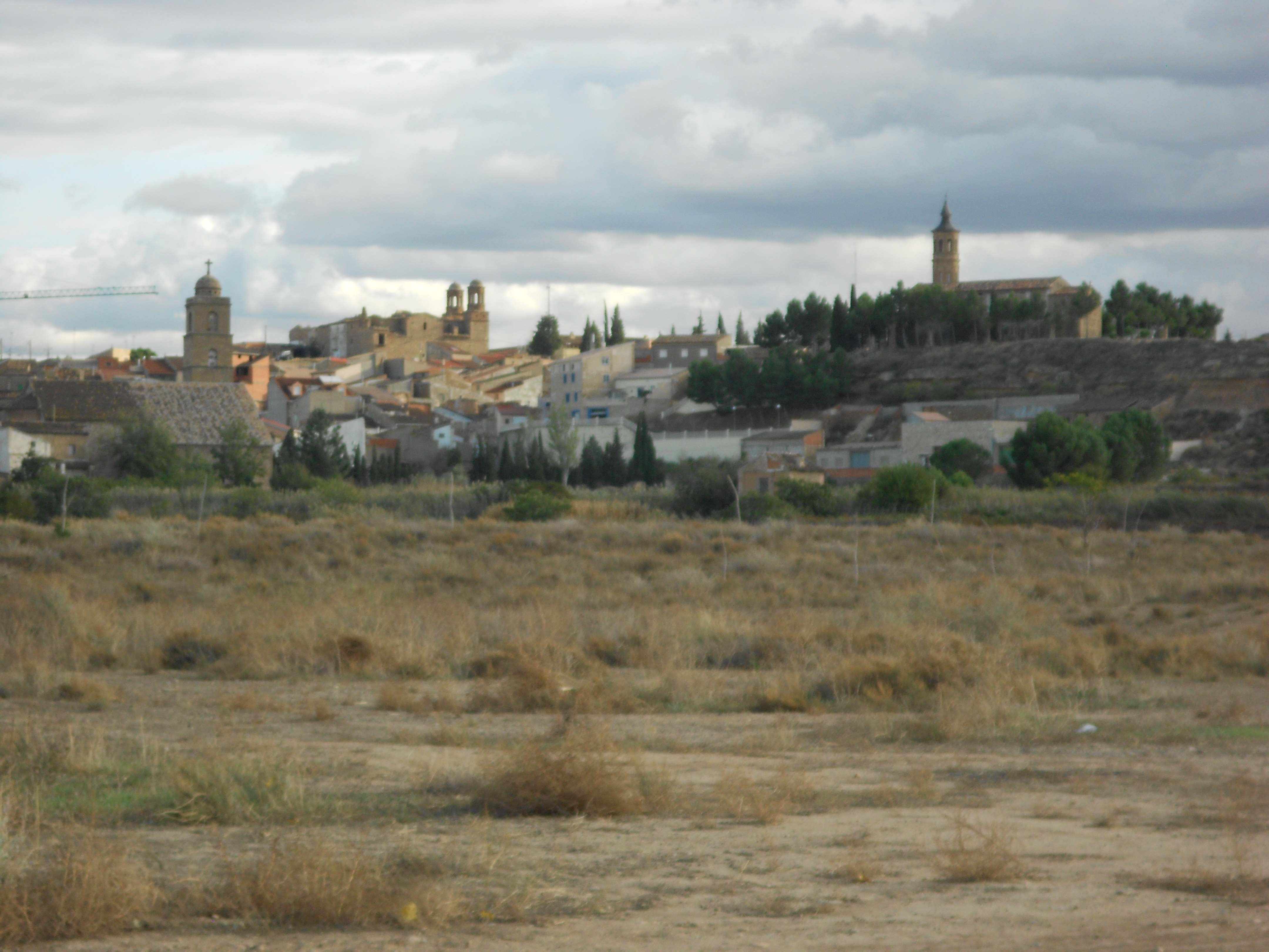 Panoramic view of Escatrón (Aragon, Spain)